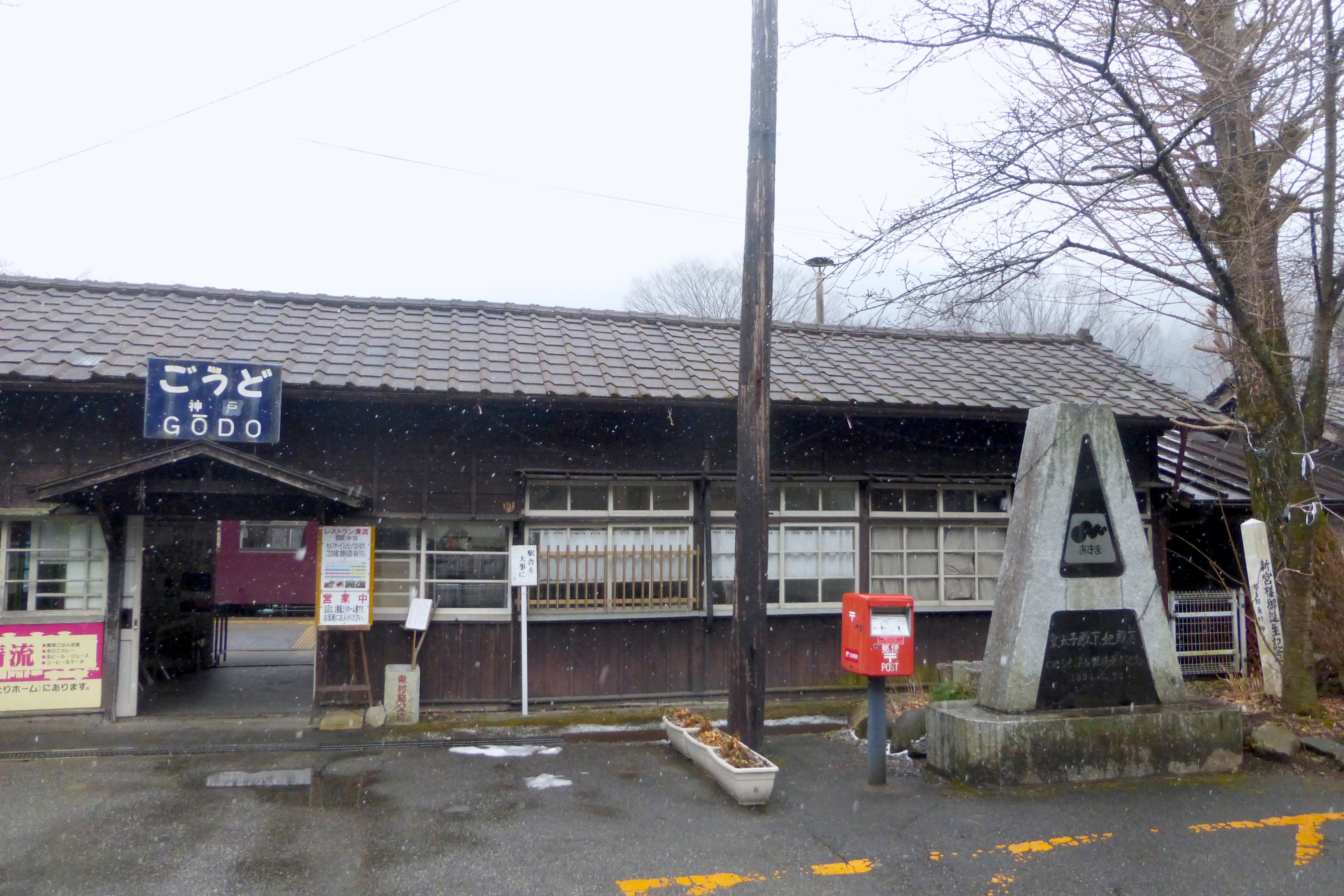 Gōdo Station (神戸駅 Gōdo-eki) building , snowy/rainy day.